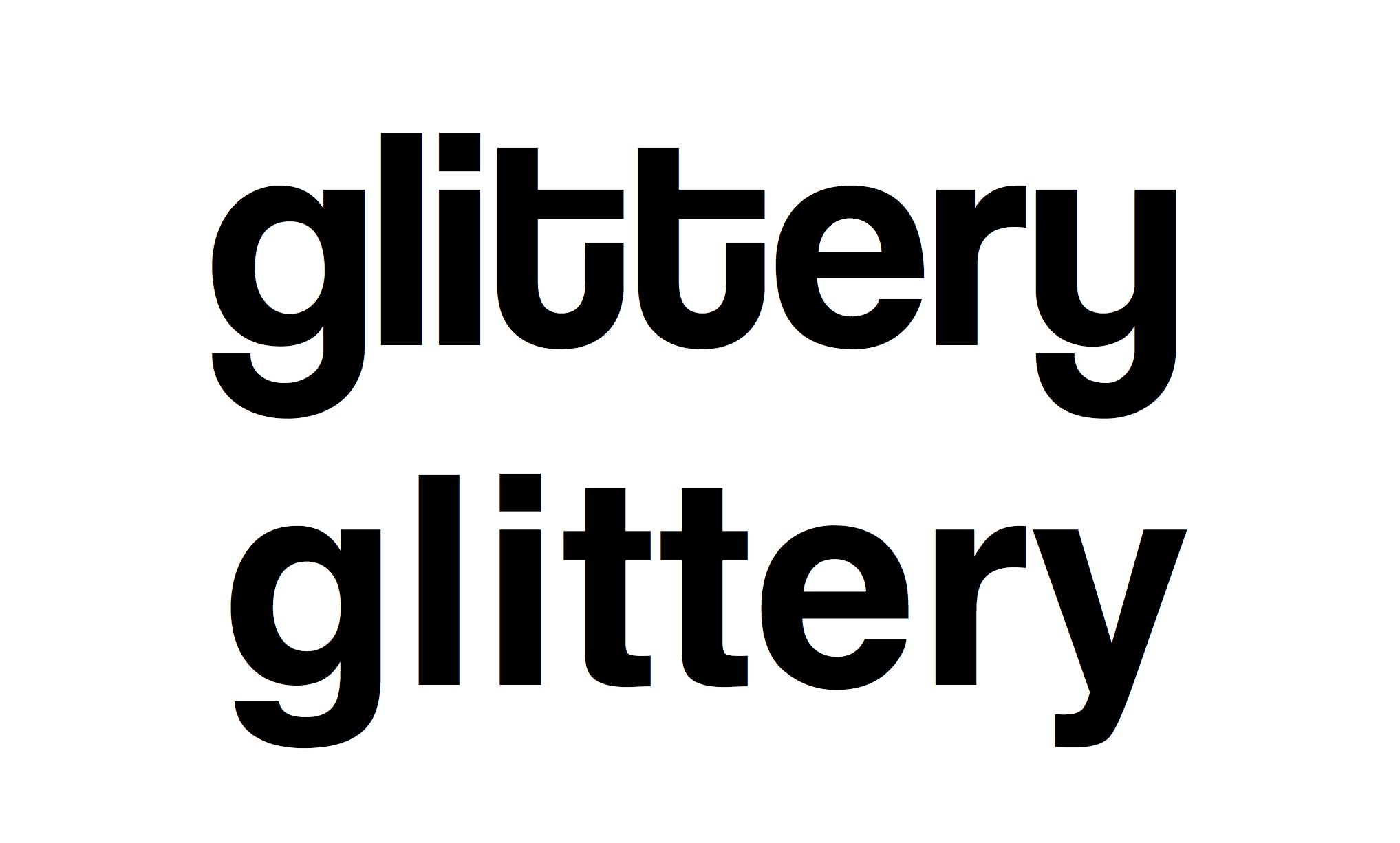 Sample image of Coolvetica compared to Helvetica Bold.